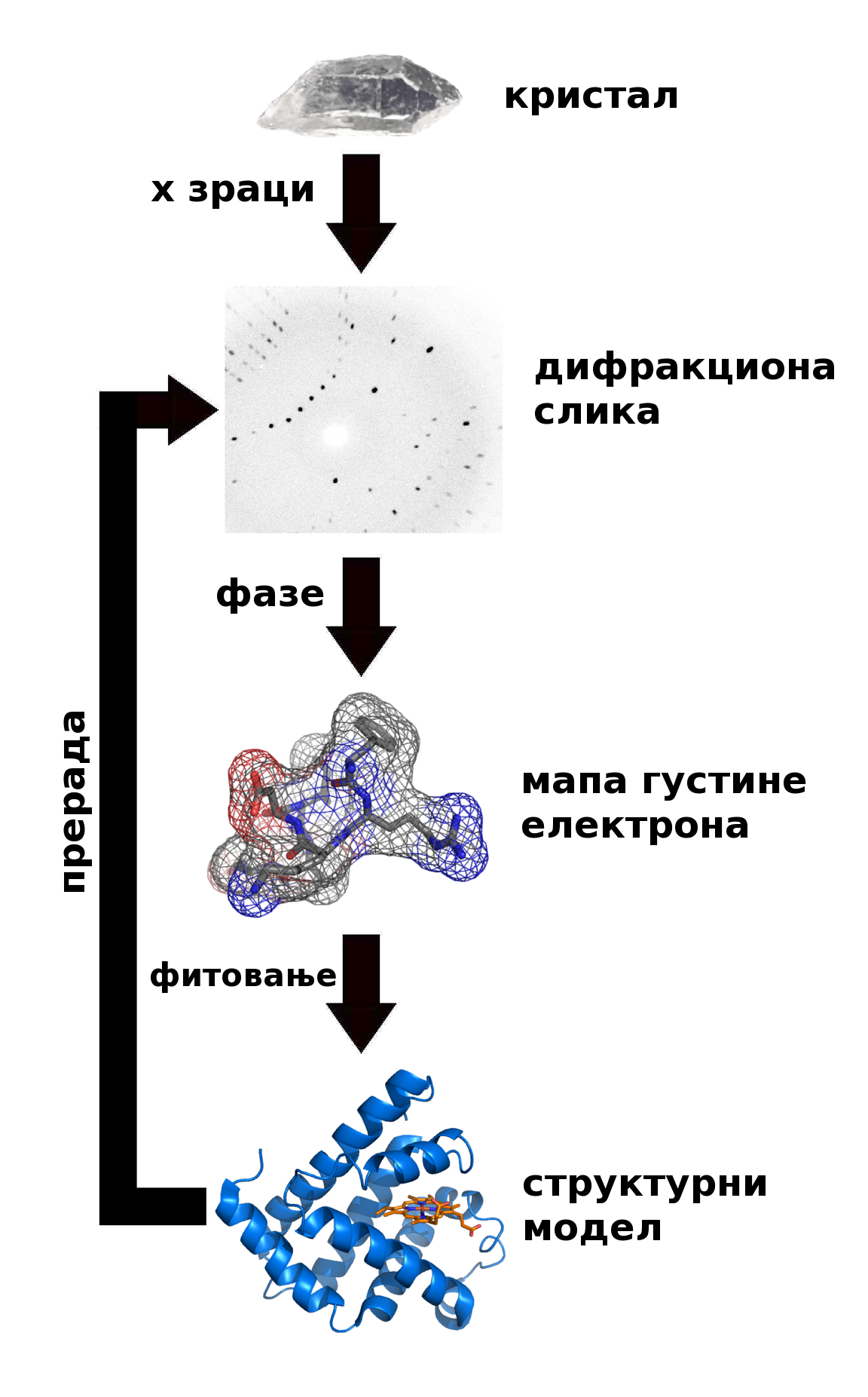 translation to Serbian language of Image:X ray diffraction.png